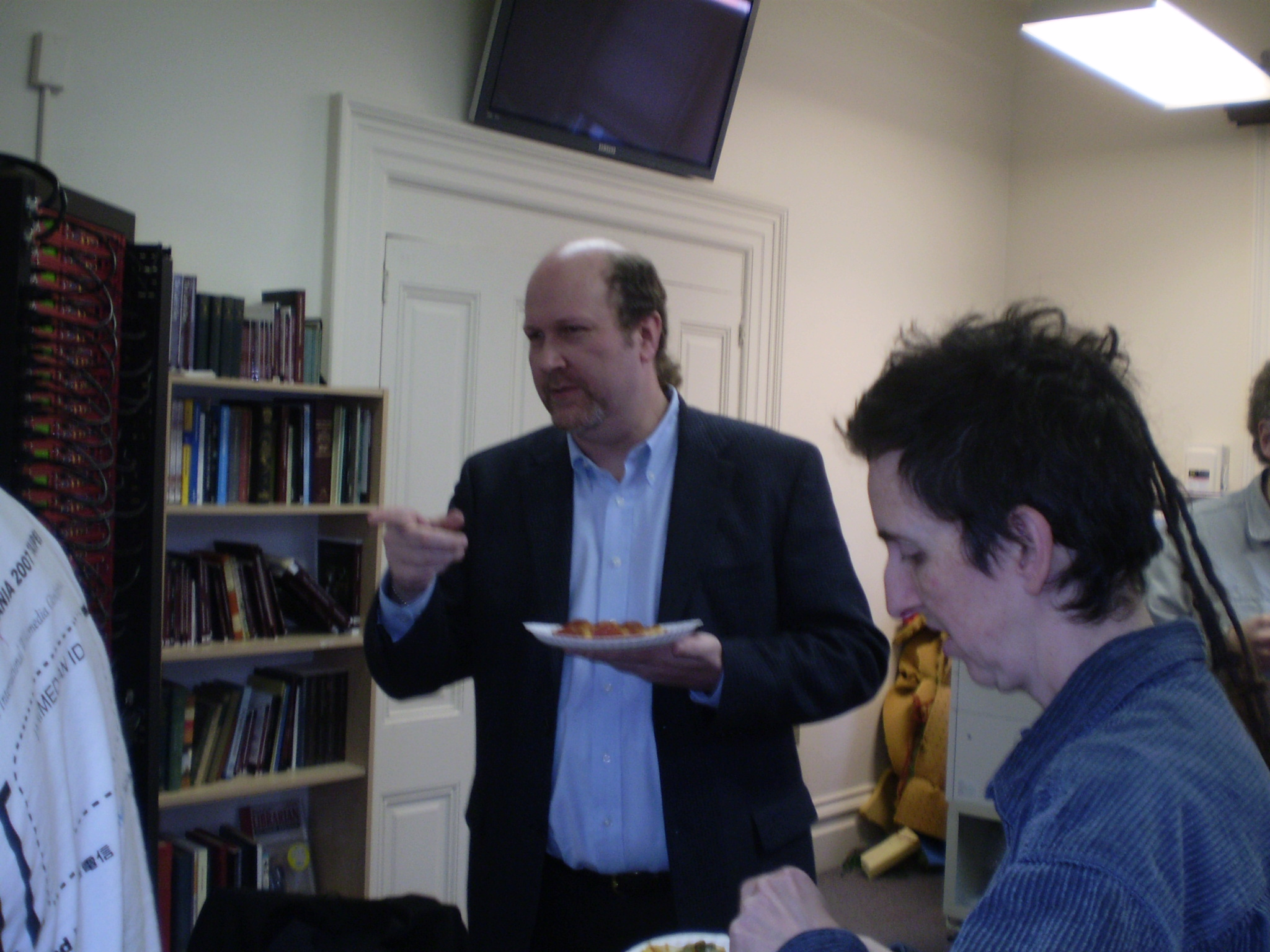 San Francisco Wikipedia Meetup (Central subject is Lee Daniel Crocker)